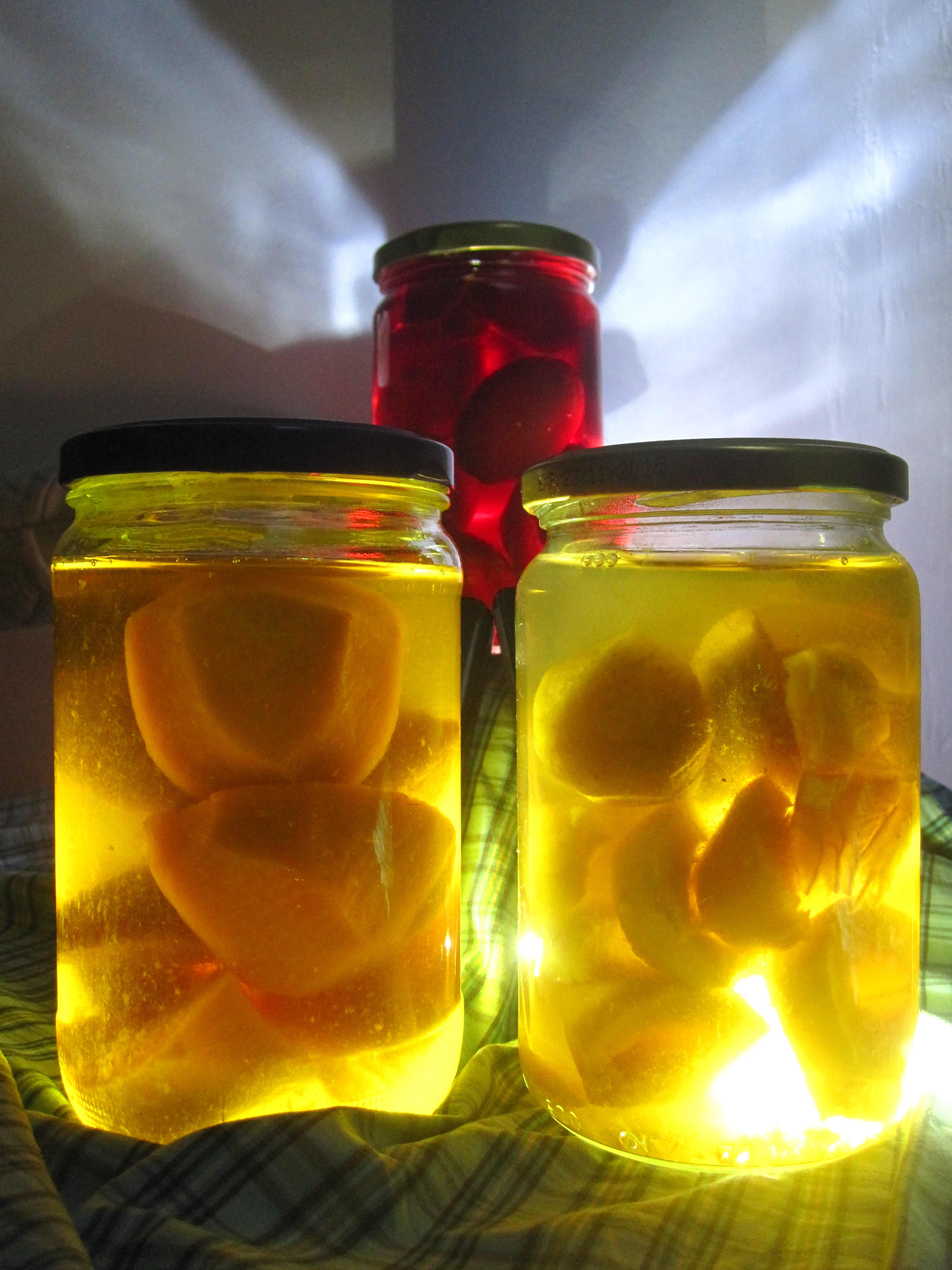 Compote of peaches, apricots and plums.